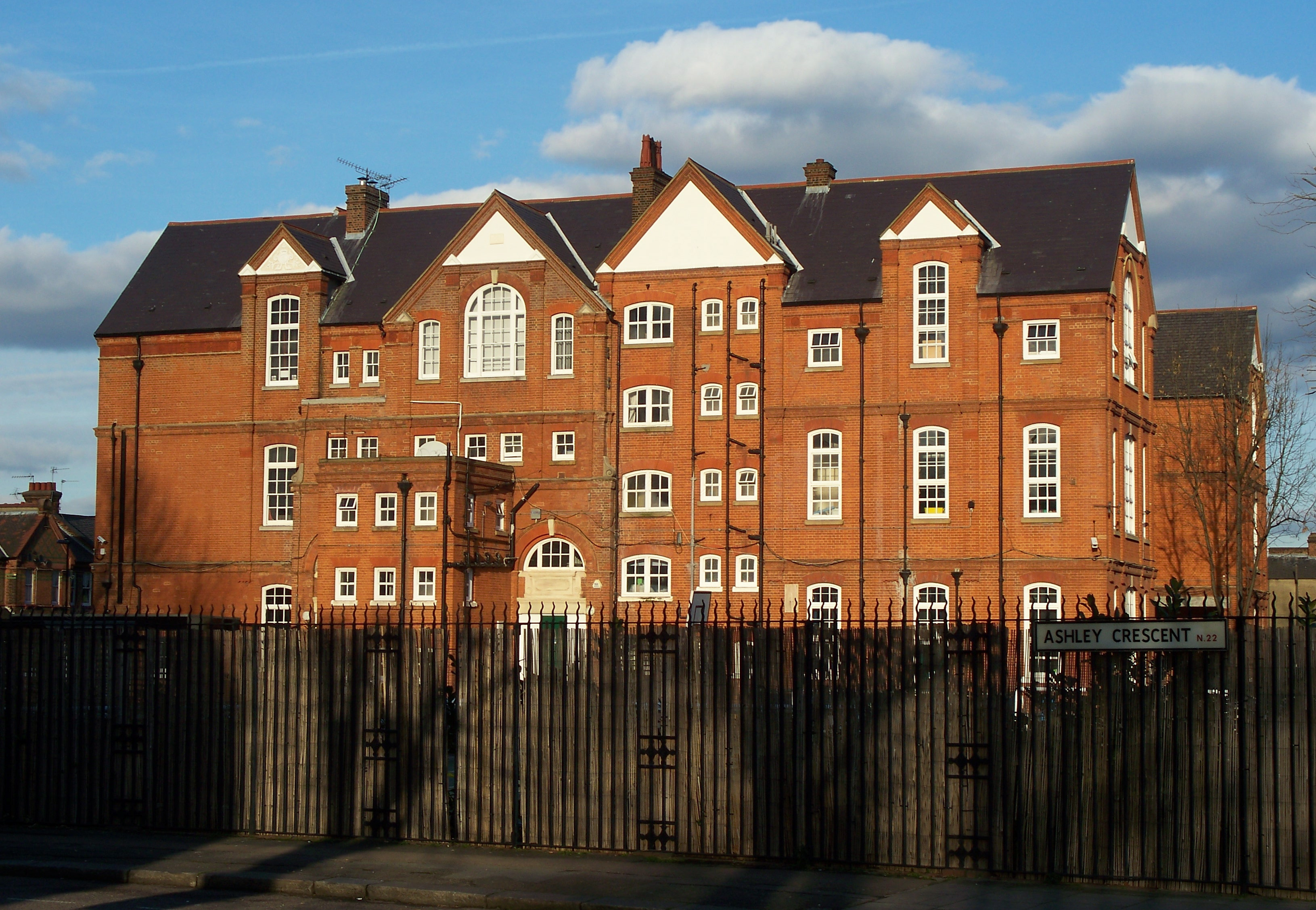 Noel Park, London N22. Photograph taken in a public location in the UK of a building on permanent public display, and exempt from copyright under Section 62 of the Copyright Designs & Patents Act 1988 ("it is not an infringement of copyright to film, photograph, broadcast or make a graphic image of a building, sculpture, models for buildings or work of artistic craftsmanship if that work is permanently situated in a public place or in premises open to the public")